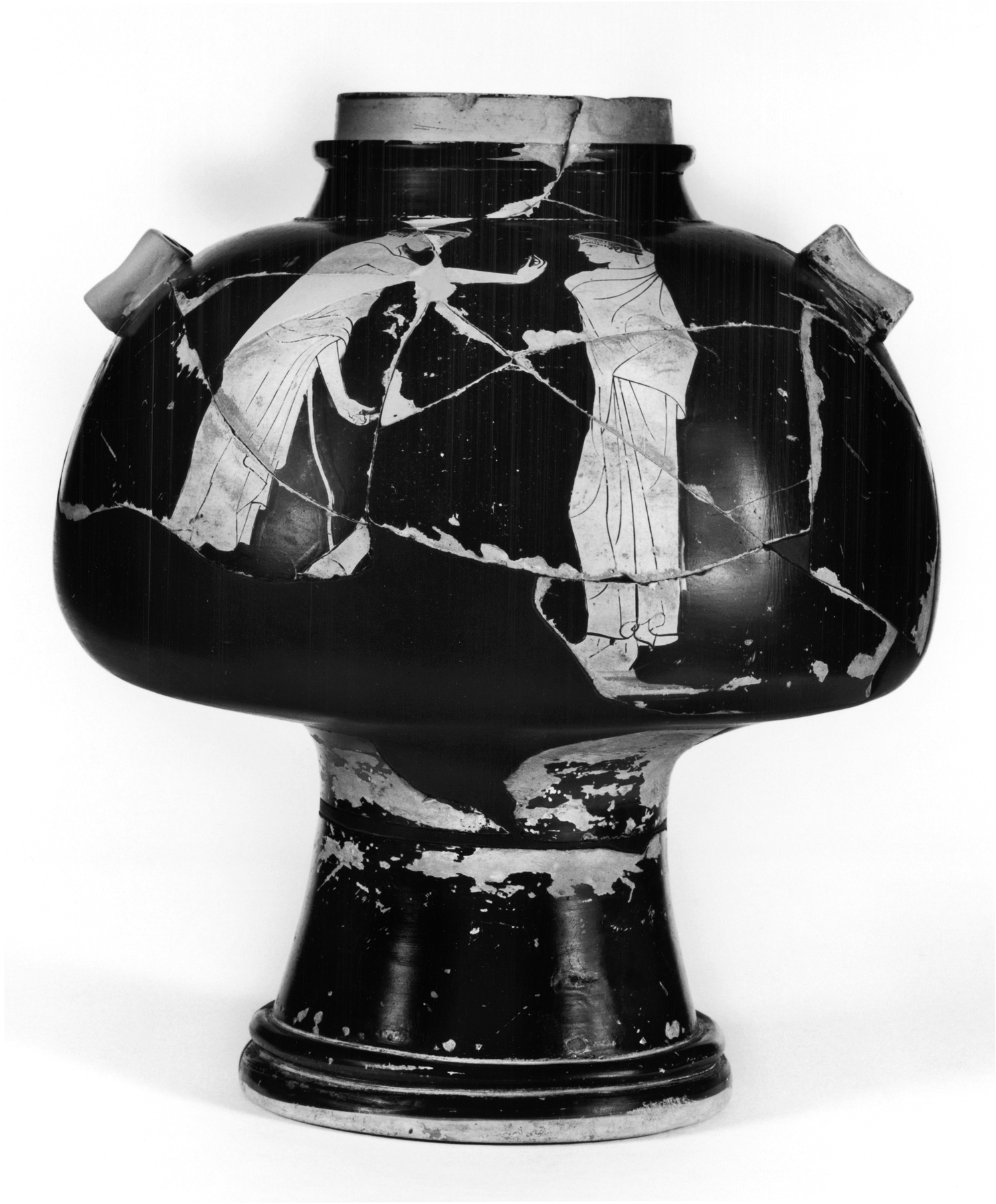 This red-figure psykter depicts an athlete and a servant boy on the front. On the left remains the left hand and lower arm of a servant holding a bag (possibly leather) by a strap. On the right a bearded male athlete in profile to the left hunches over infibulating himself; his attention is focused on the bag held by the boy. On the back are a youth and a boy (possibly courting) a dog. On the left a mantled youth with fillet leans forward on a staff. He holds both arms out and far apart, gesturing to the boy on the right. A dog (Laconian hound) sits on the ground to the right before the youth. The boy, who wears a mantle and fillet, stands attentively in profile to the left. The scene on the front is unusual. The bag held by the youth is probably of leather and may be either a small punching bag ("korukos") or simply a vessel for liquid. Leather bags were used for holding oil. The scene on the back is similar to others by the Syriskos Painter. The pose of the youth's hand is that often used by men about to or in the process of fondling their lover's genitals. This suggests a possible identification as a courting scene. The psykter comes from the Tomb of the Leopards in Tarquinia which was excavated by the Marzi brothers in 1875.